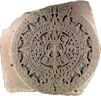 Ollin Tonatiuh